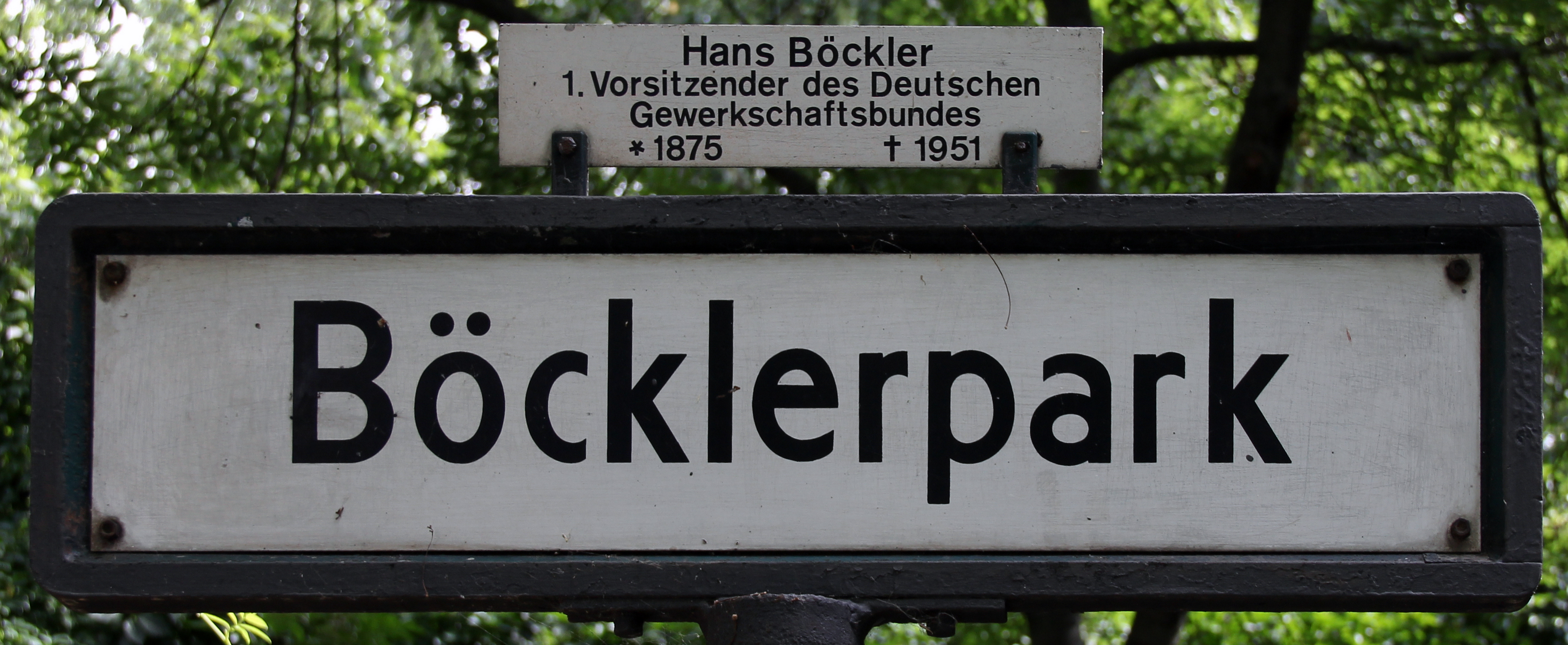 Memorial plaque, Hans Böckler, Böcklerpark, Berlin-Kreuzberg, Germany